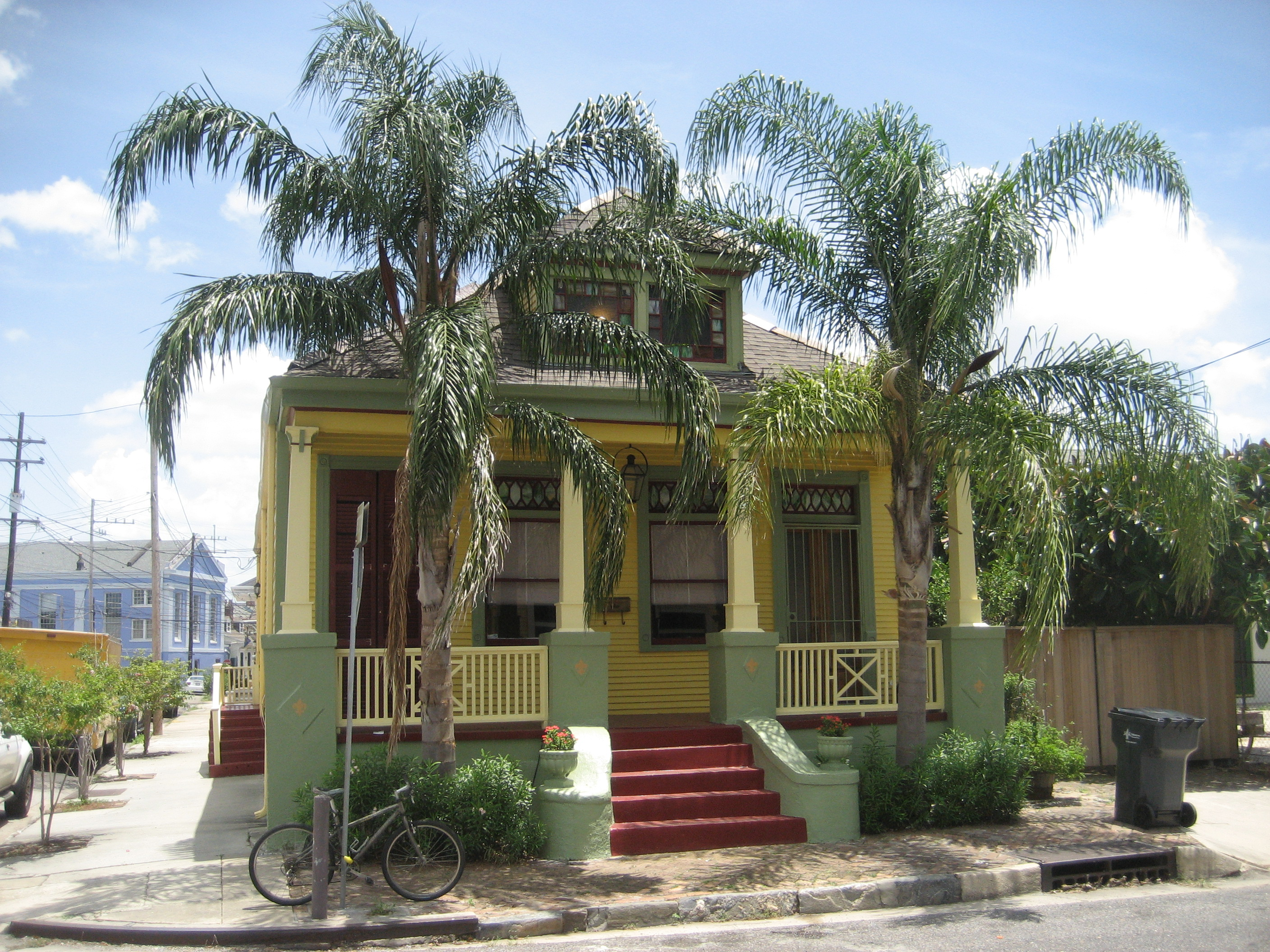 New Orleans: House in the Faubourg Marigny neighborhood. Chartres Street runnining downriver at left.